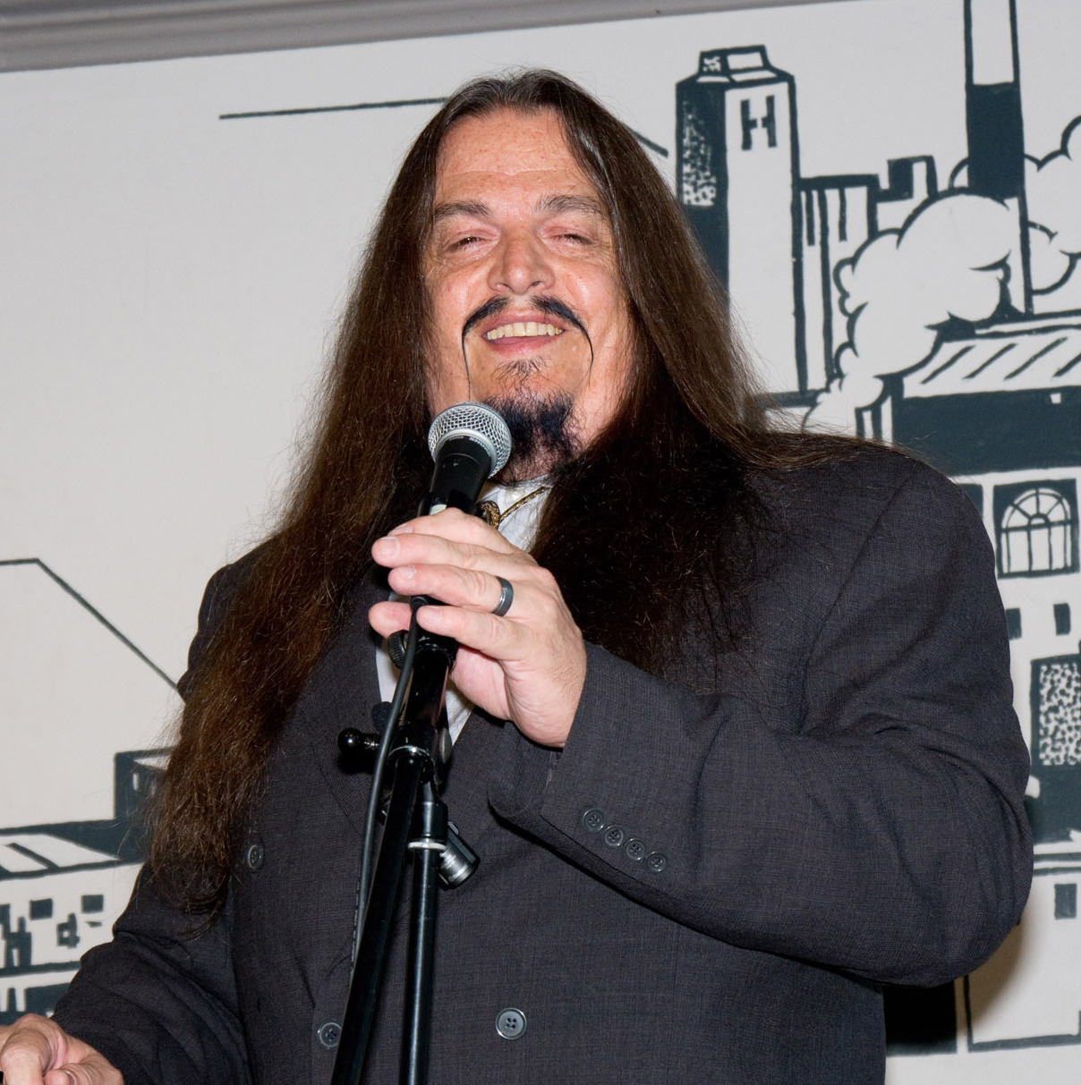 Aron Ra lectures in Utrecht, May 3, 2015.